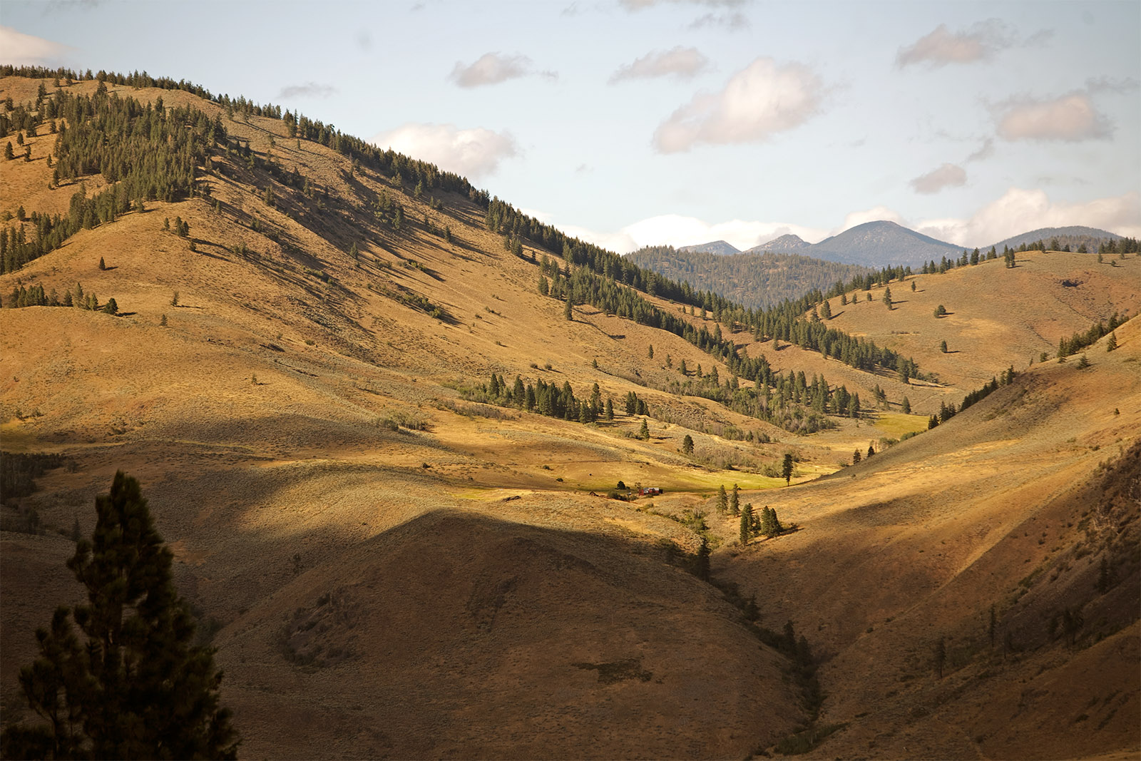 This is the view from the Sun Mountain Lodge. Taken in Winthrop, Washington